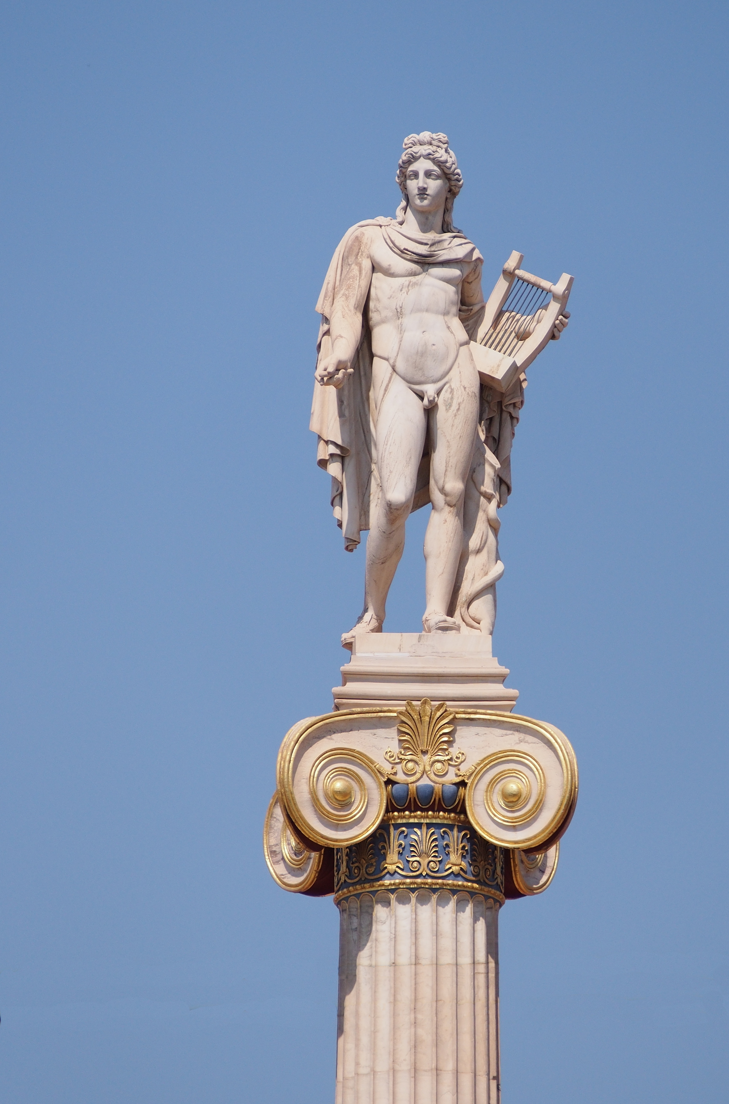 Apollo column at the Academy of Athens, work of Leonidas Drosis (died in 1886).